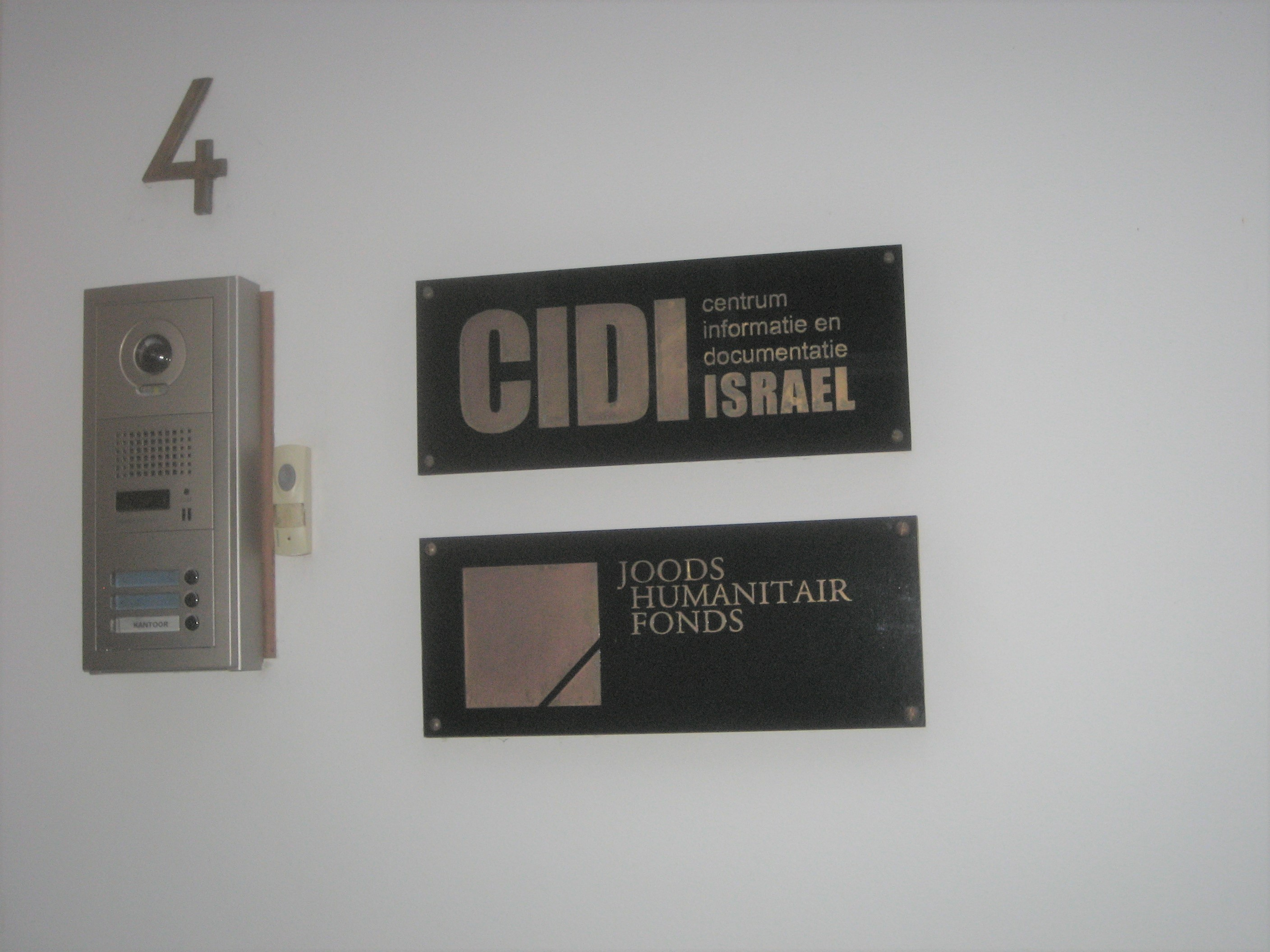 CIDI (Centrum Informatie en Documentatie Israël), The Hague (the Netherlands) & Joods Humanitair Fonds